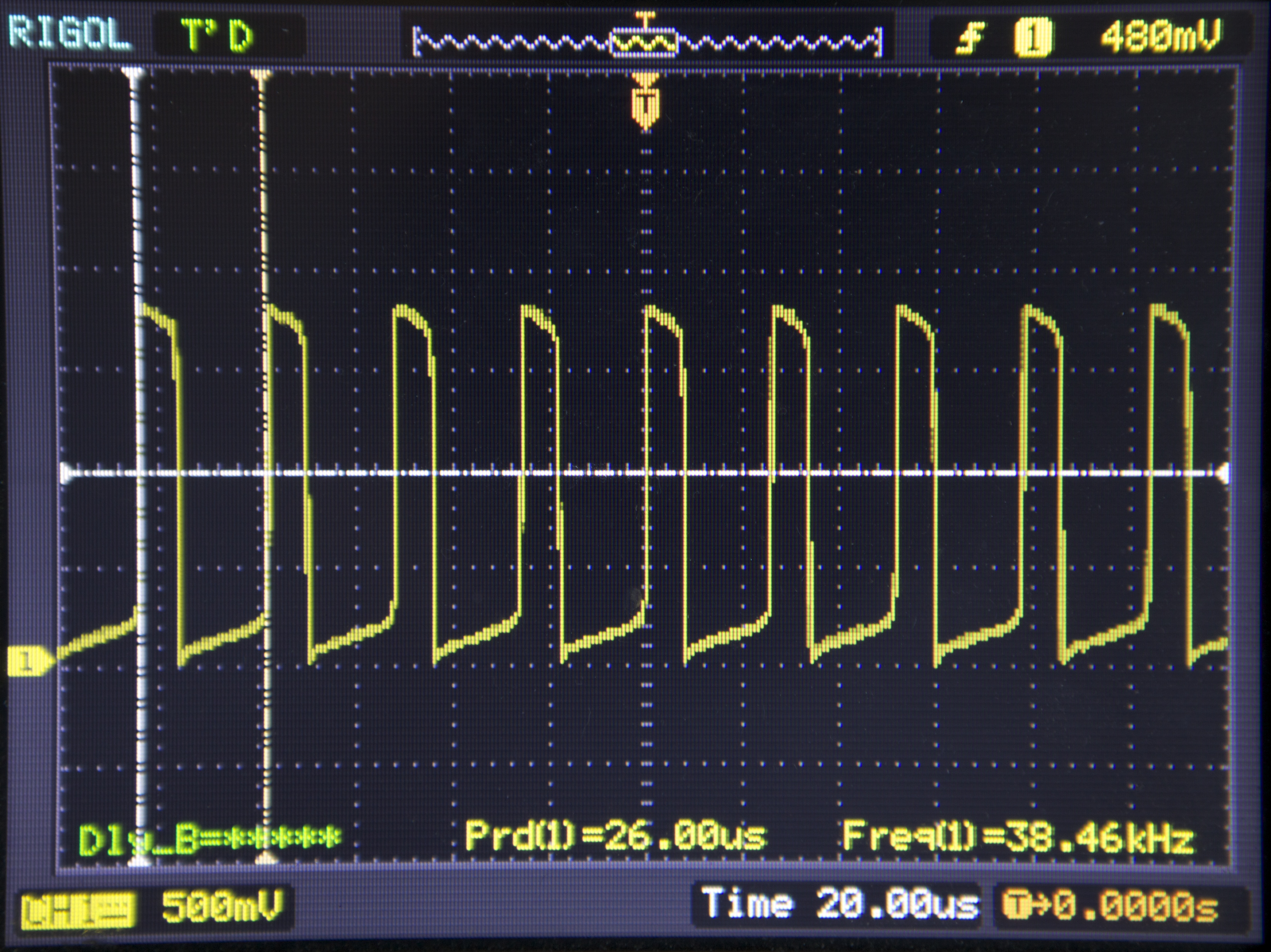 The pulsed waveform generated by the oscillator in a Joule thief.